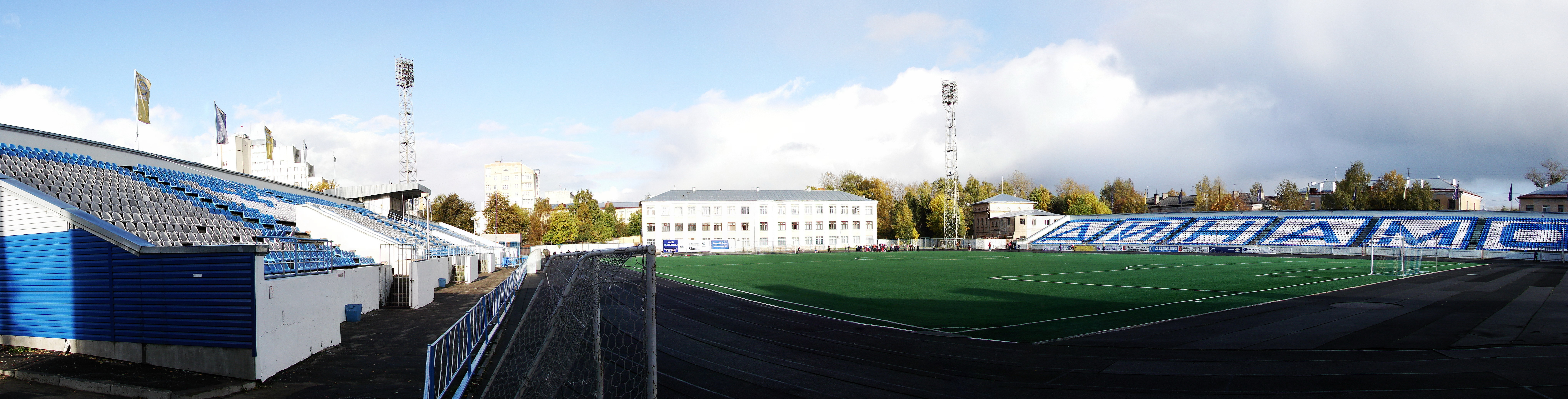 Russia, Vologda, Dynamo Stadium